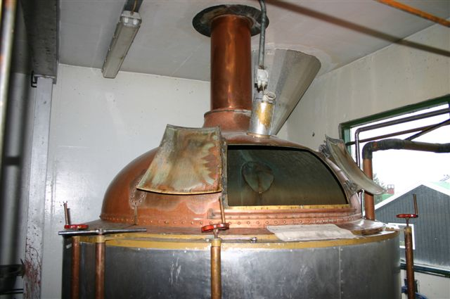 Restorff brewery, Tórshavn, Faroe Islands